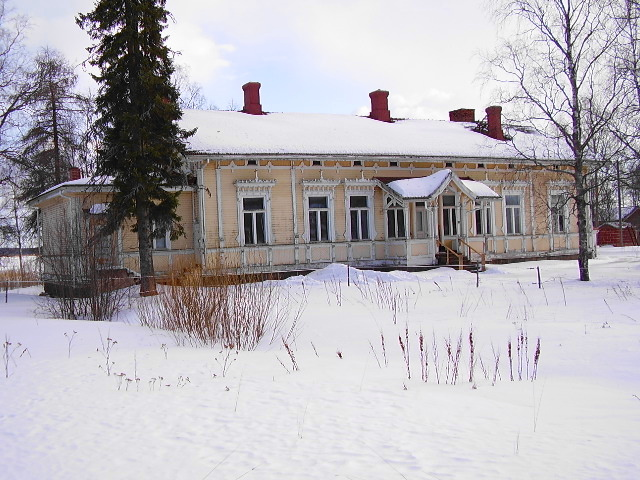 Honkola former vicarage in the village.